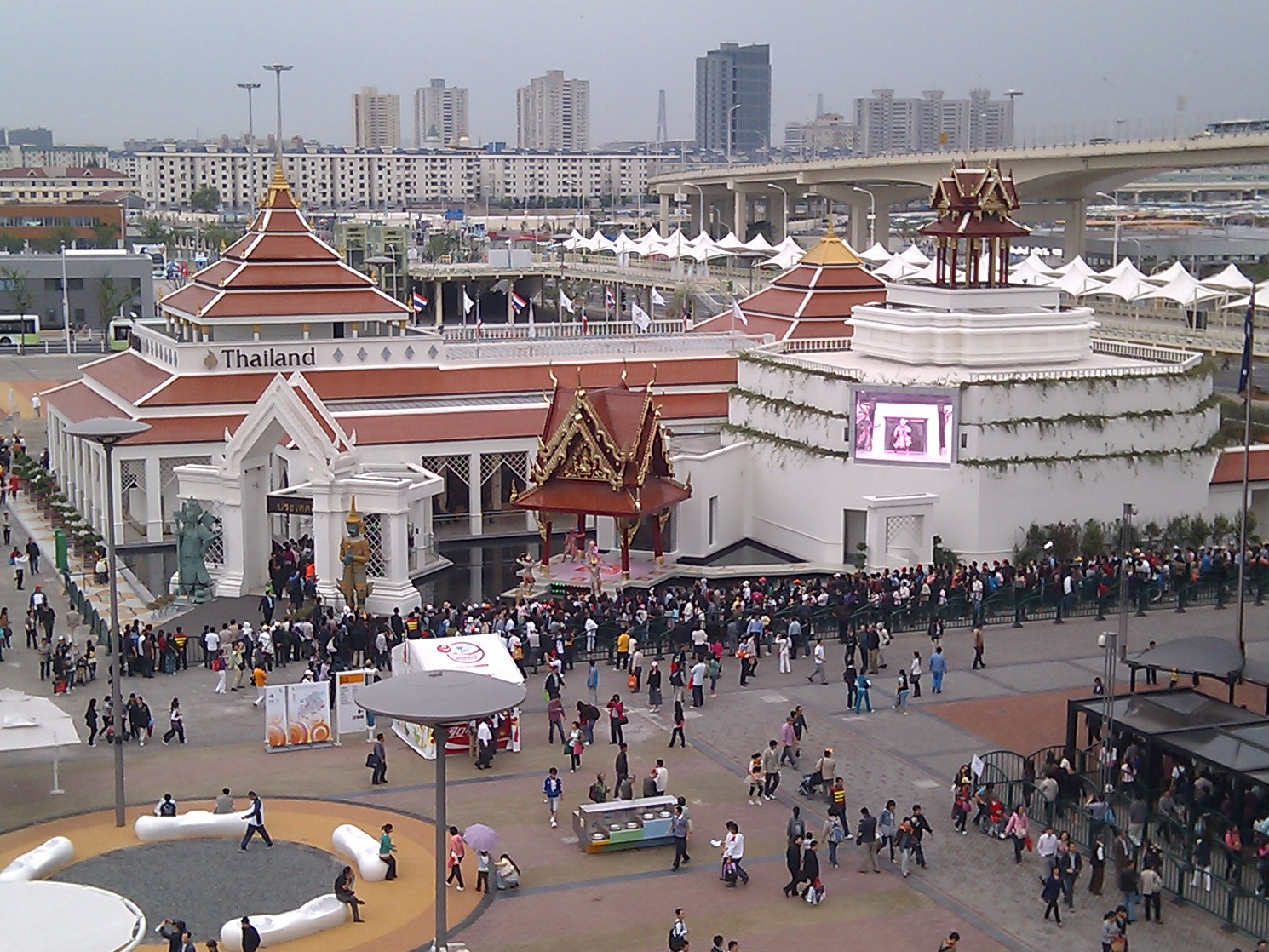 Thailand Pavilion of Shanghai Expo 2010